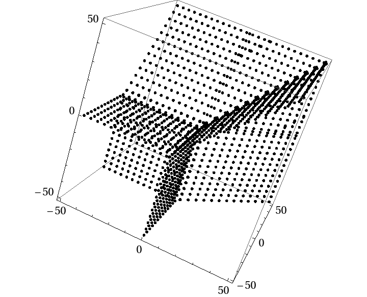 This shows a set of points that lie on the 3-dimensional amoeba obtained from the polynomial x+y+z-1.